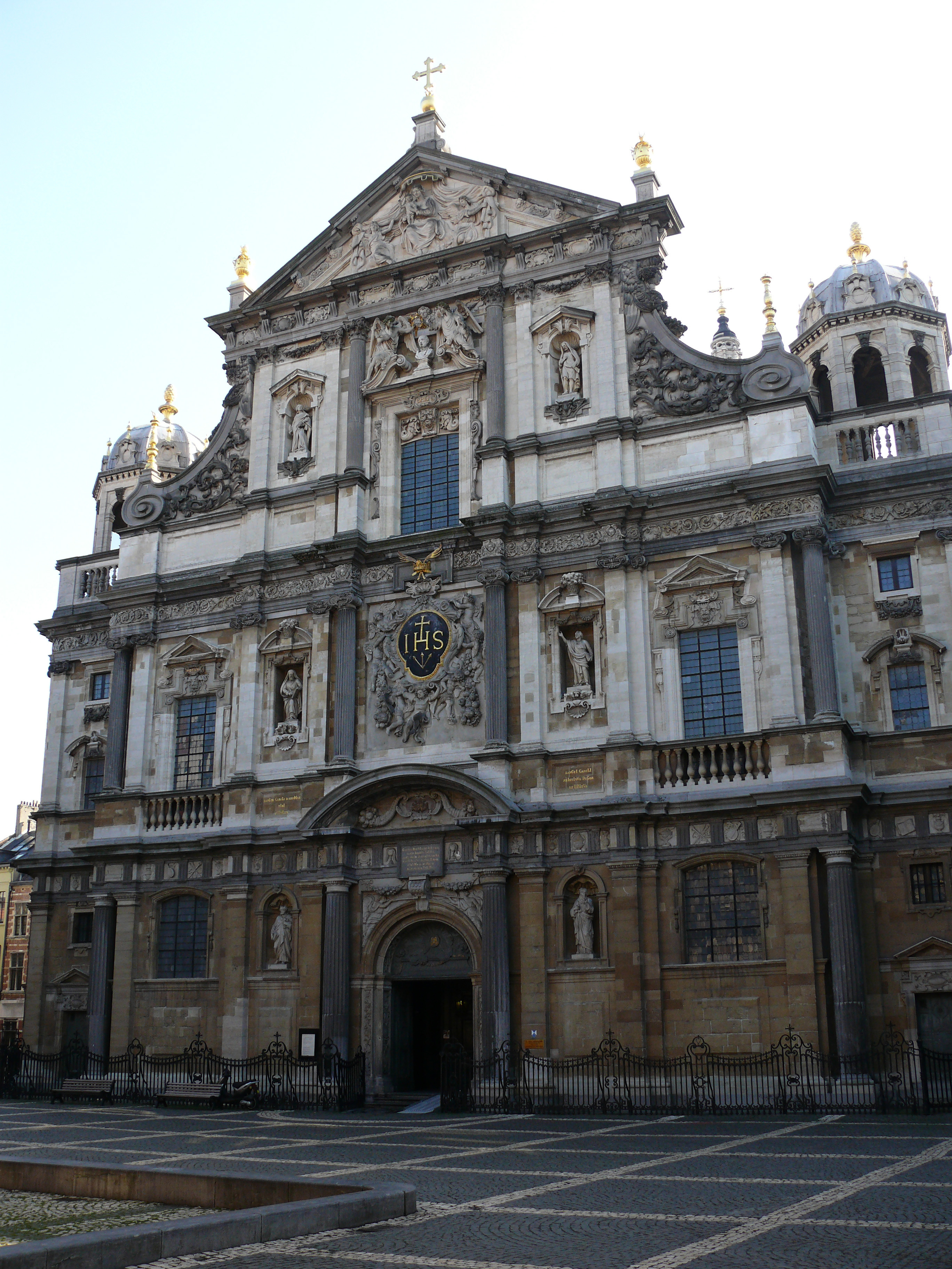 The Church of Carolus Borromeus (Carolus Borromeuskerk) at the Hendrik Conscienceplein in Antwerp, is a former Jesuit Church in baroque style. The church was designed by fathers Franciscus de Aguilon s.j. and Pieter Huyssens s.j. The church was bult between 1615 and 1521. First dedicated to Ignatius de Loyola, then in 1773, after the suppression of the Jesuit Order, renamed to the church of Charles Borromeo. Since 1803 it has been a parish church. The church is a typical product of the Counter-Reformation in which the Catholic Church tried to regain the confidence of the people with much pomp. The Jesuits were the spearhead of this movement. The facade of the church is inspired by Serlio's books on Architecture. The Church boasted numerous paintings and ceiling paintings by Rubens which were unfortunately destroyued during a fire in 1718. After the fire the church was given a more sober interior.